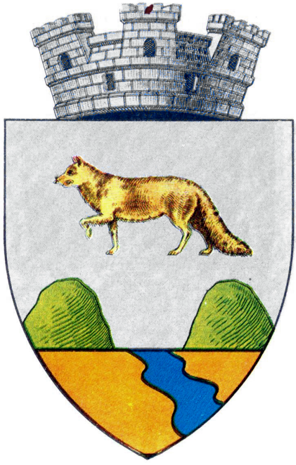 Interwar coat of arms of Balș, Romanați County, Kingdom of Romania.